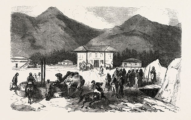 Camp Sefer Pasha, in Batum, 1855. A Victorian engraving.